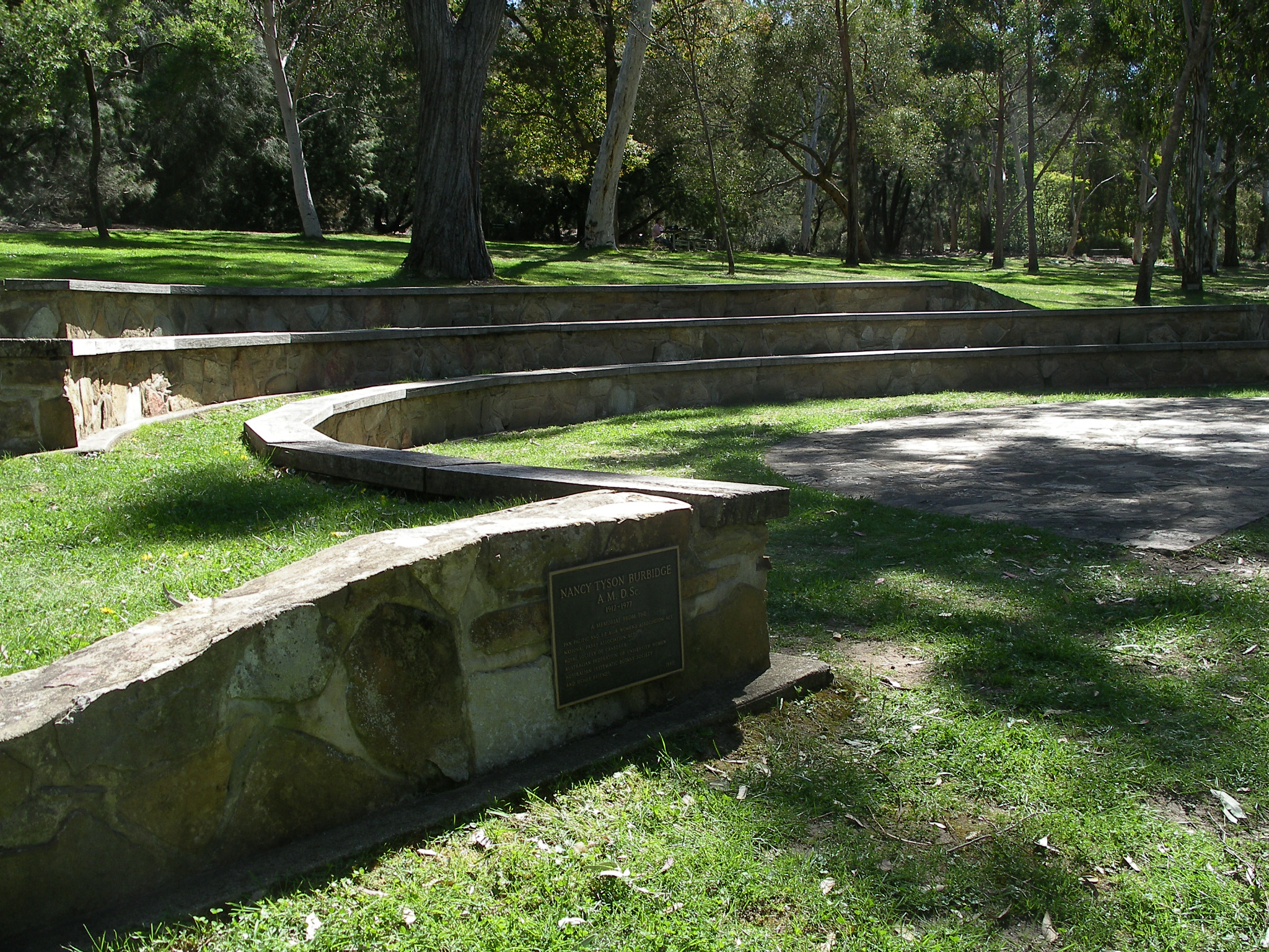 Nancy T. Burbidge Memorial Amphitheatre in the Australian National Botanic Gardens, Canberra, Australia. Plaque reads: Nancy Tyson Burbidge A.M. D.Sc. (1912 - 1977) A memorial from the Pan Pacific and South East Asia Women's Association ACT; National Parks Association ACT; Royal Society of Canberra; Australian Federation of University Women; Australian Systematic Botany Society; and Friends (1980)